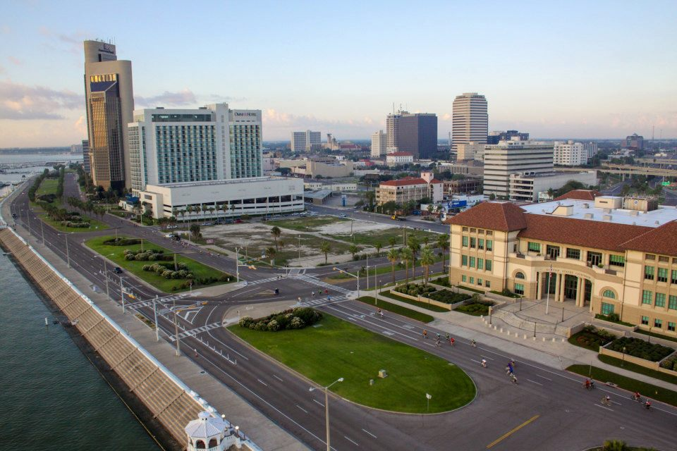 Downtown Corpus Christi , Texas Skyline